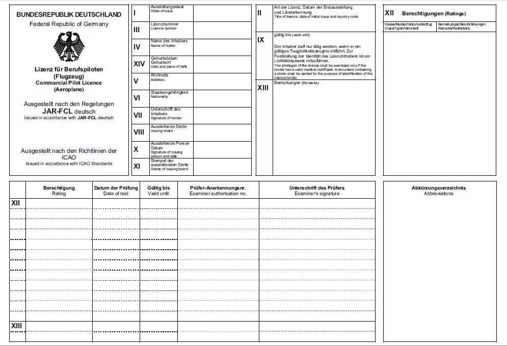 CPL(A) Licence